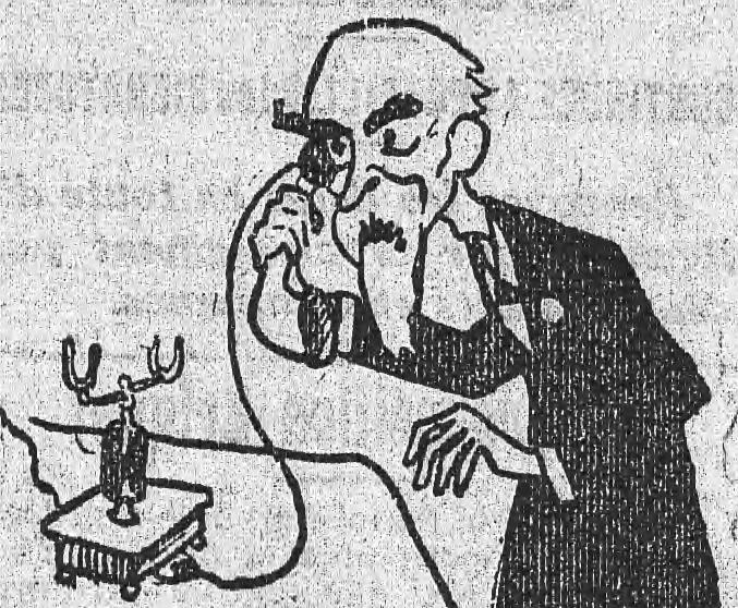 Extract of a caricature of Louis Lépine in L'Humanité (28 May, 1913). The caricature is titled "Lépine candidate" (to a partial election in Montbrison), with the legend: "Today, the electors of Chialvo [the deputy whose death left the siege vacant] call for me, tomorrow, all of France will call for me."